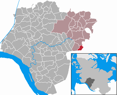 This map shows the area of the municipality Hingstheide in the Kreis (district) Steinburg, Schleswig-Holstein, Germany.